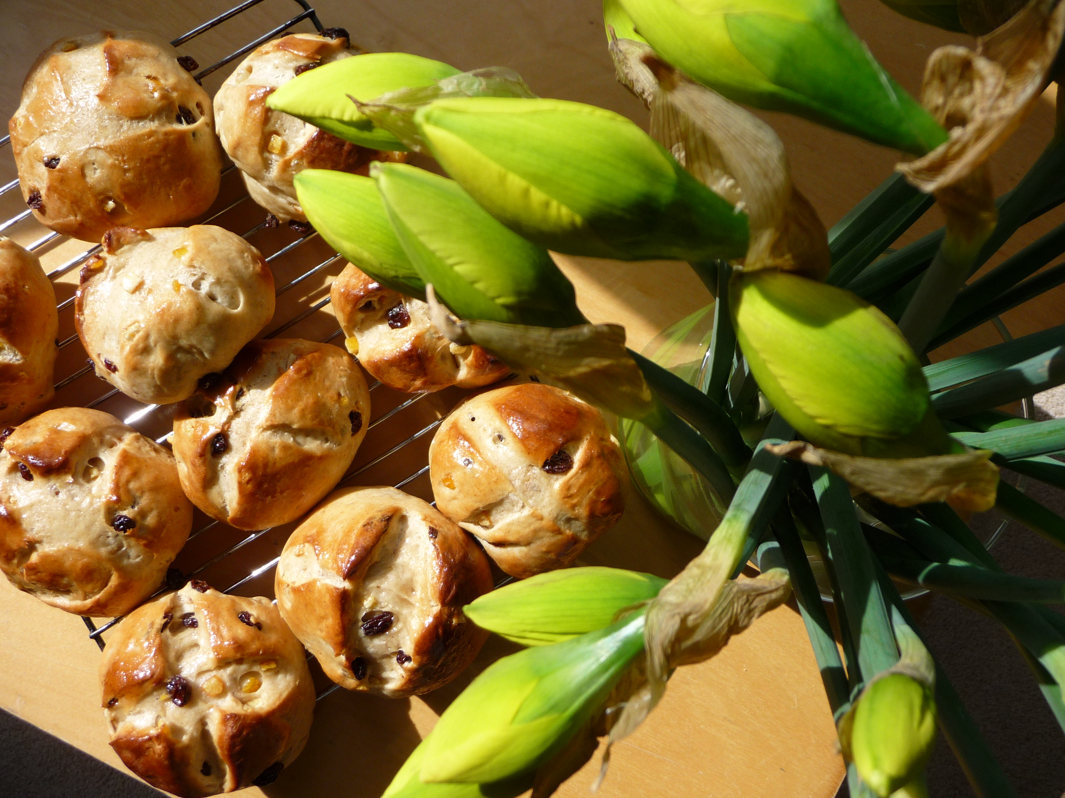 bit late but I just found this on my camera. a sunny Easter Sunday afternoon, daffodils and home made hot cross buns. Scrummy.